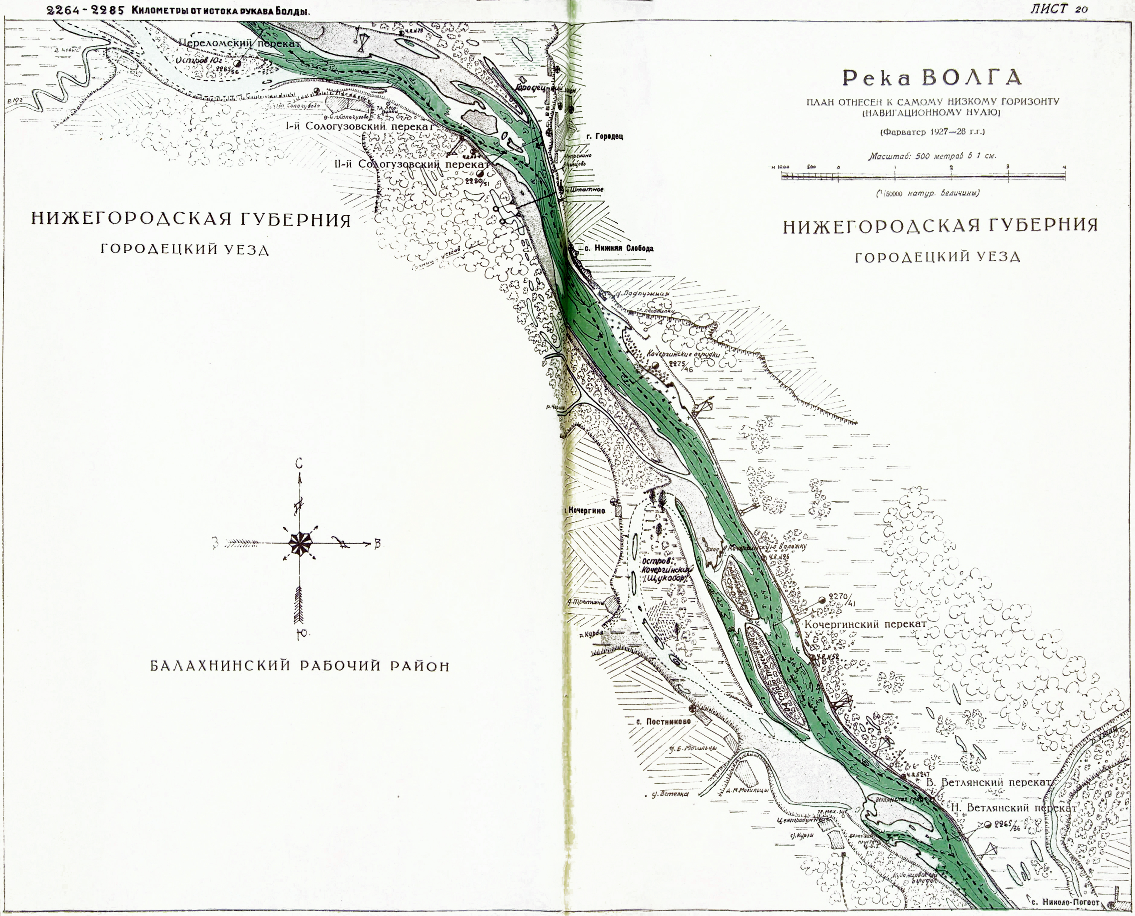 Pilot Map of the Volga River from Rybinsk to Nizhny Novgorod. Volga near Gorodets. 1929.